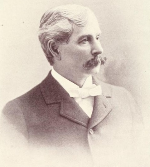 Thomas S. Flood, Congressman from New York